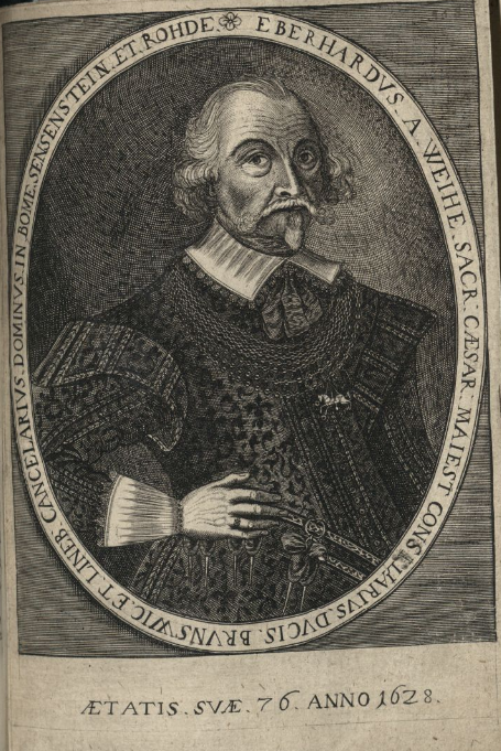 Portrait of Eberhard von Weyhe, from vol. I of the Album Morsianum, Stadtbibliothek Lübeck